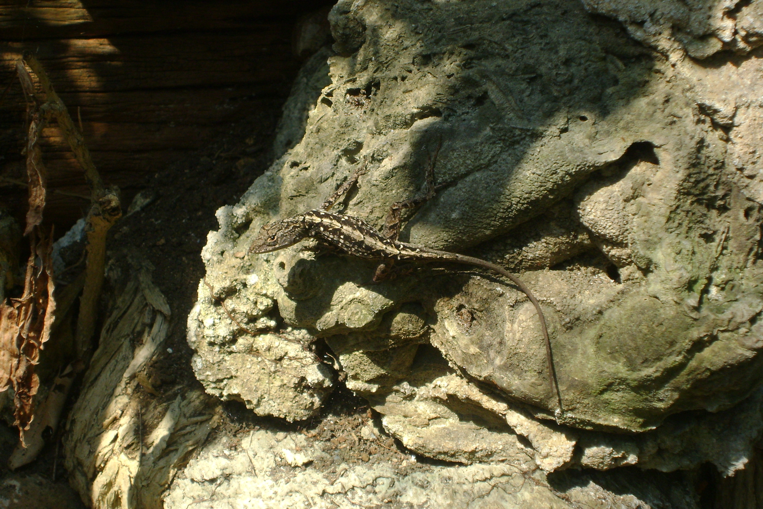 Anolis Sagrei